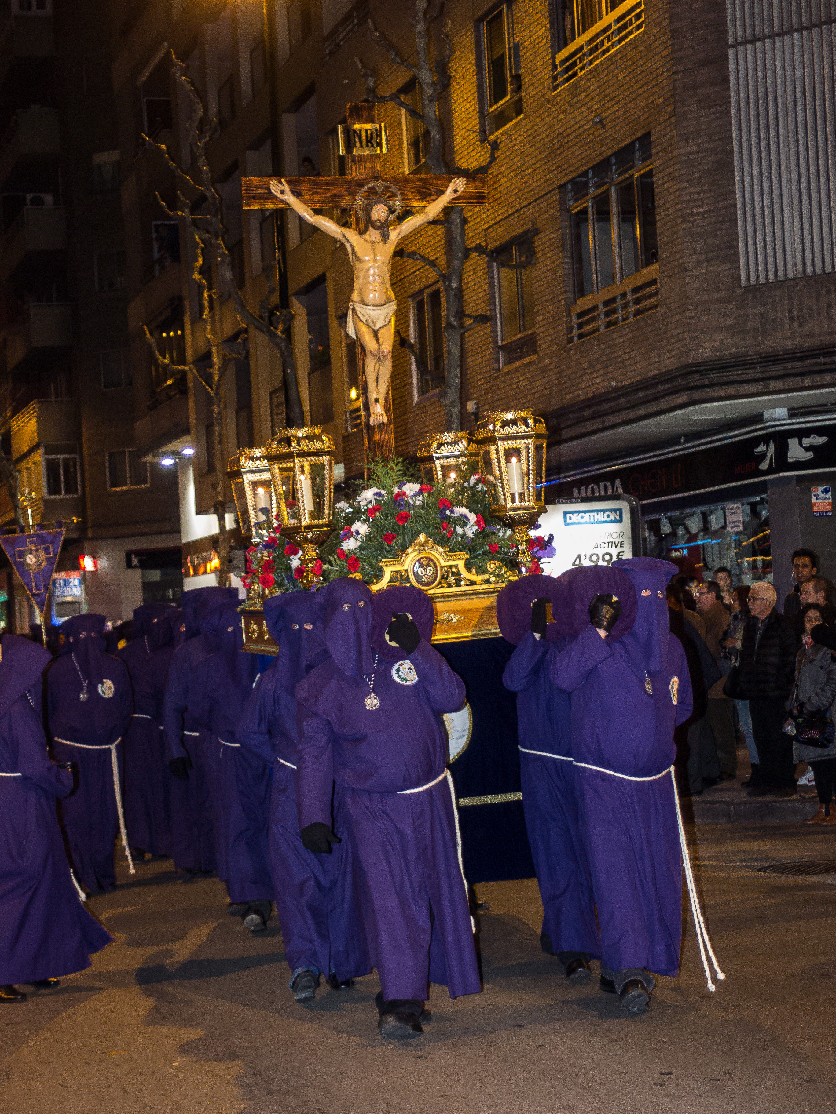 OLYMPUS DIGITAL CAMERA This is a photography of a Folklore festival in Spain (Wikidata id Q9075892).